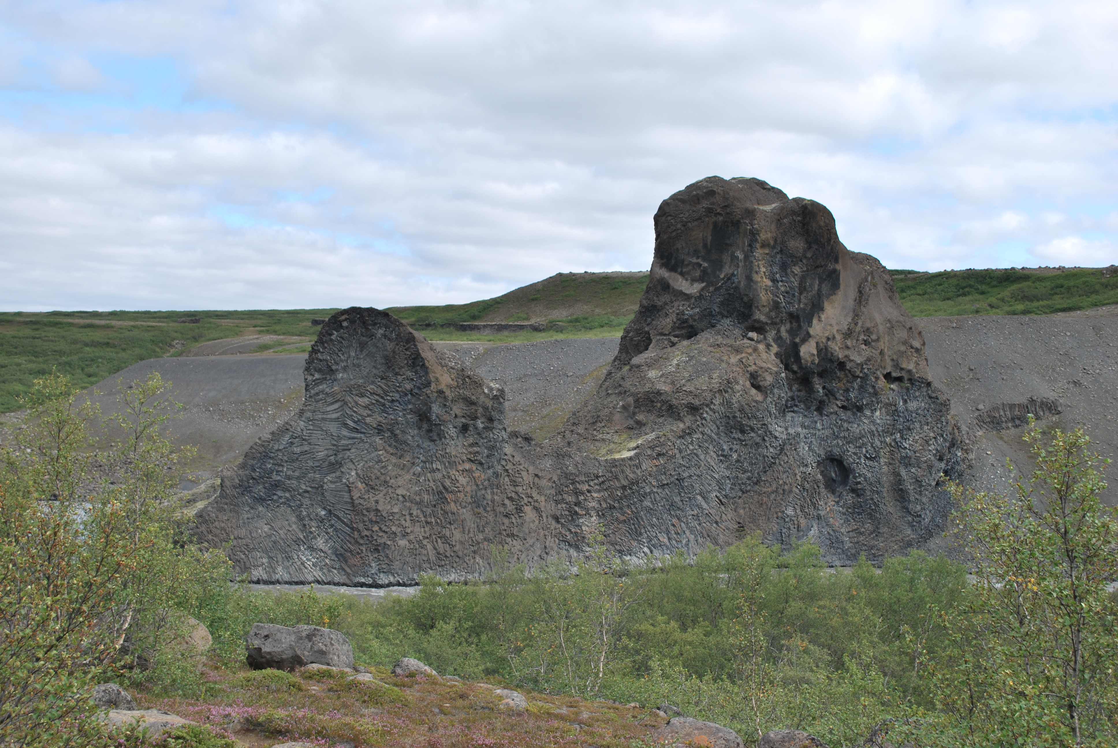 Hljódaklettar area which is characteristic with basaltic columns forming atypical formations, Iceland.